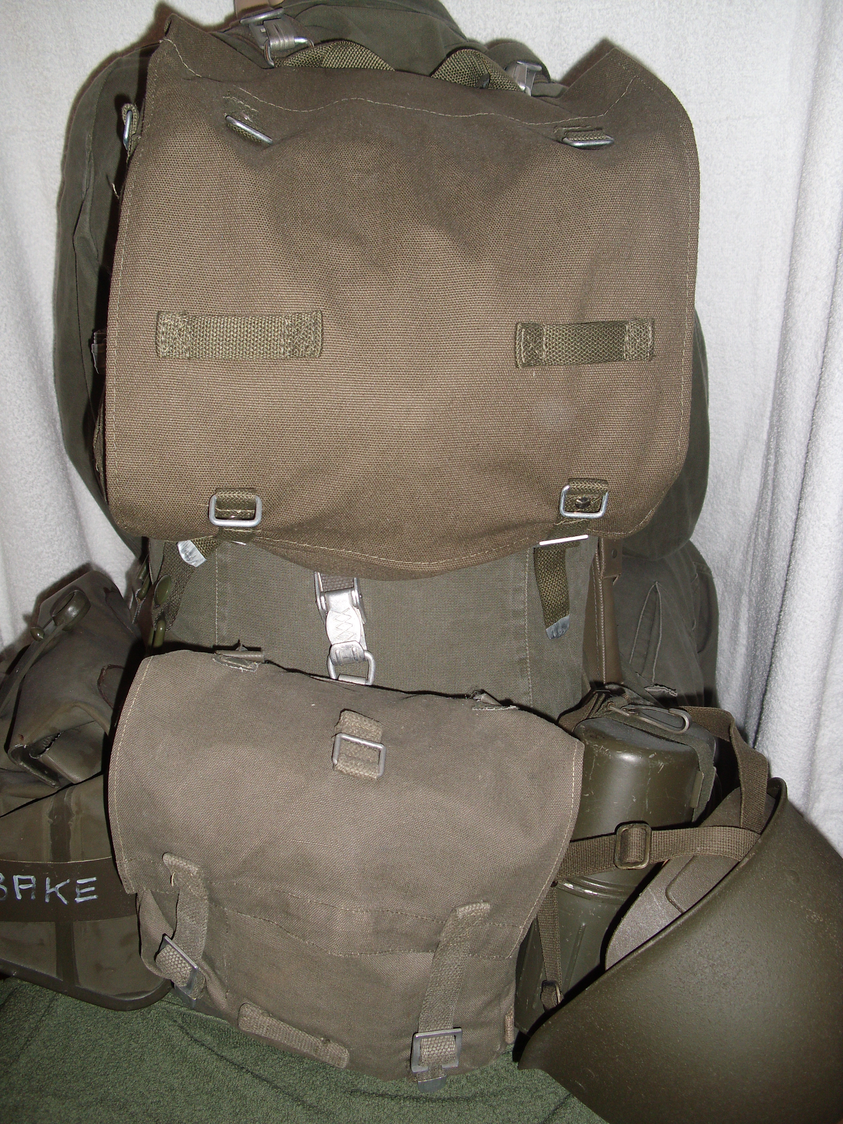 German Bundeswehr Combat Packs c. 1980